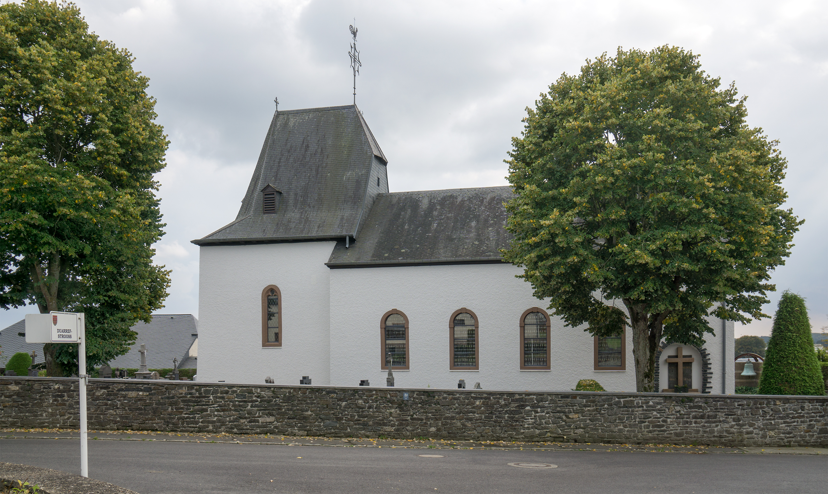 Church of Lieler